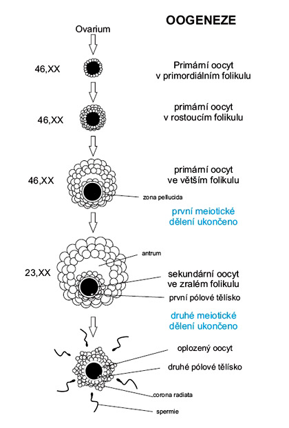 Oogenesis.